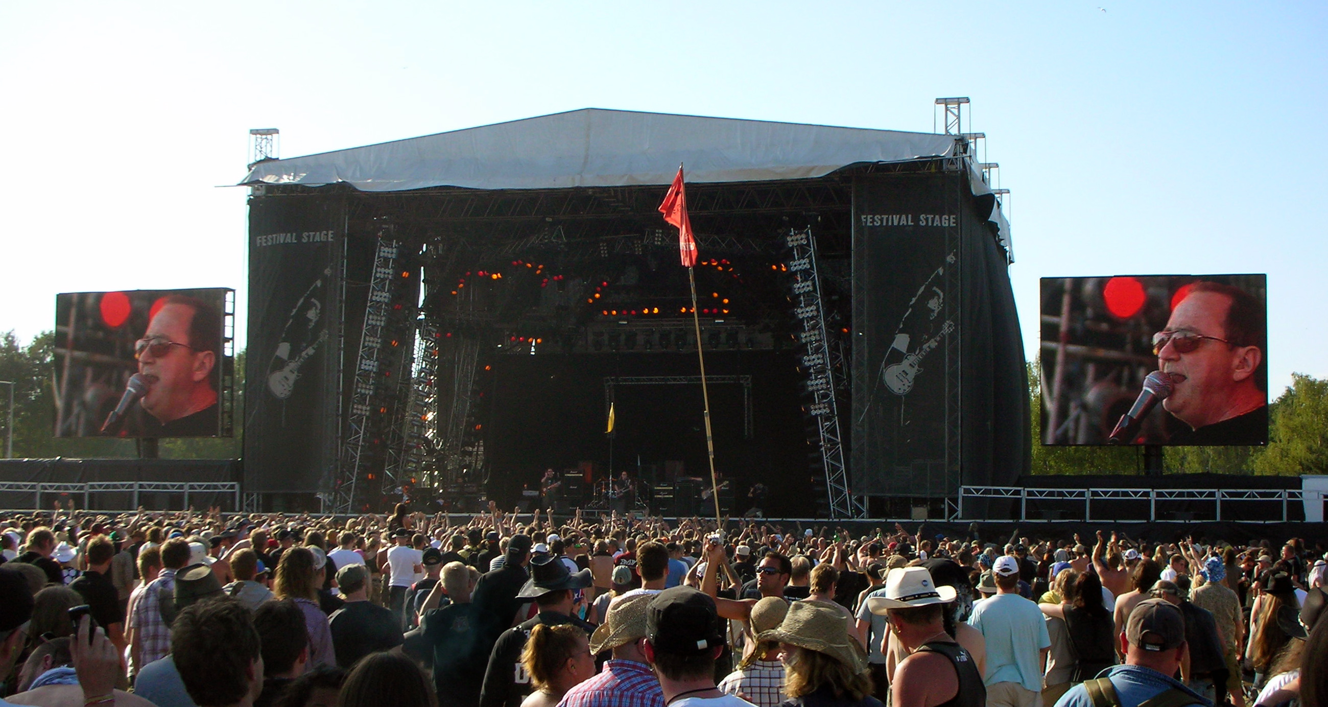 Blue Öyster Cult, American rock band, at the Sweden Rock Festival in 2008